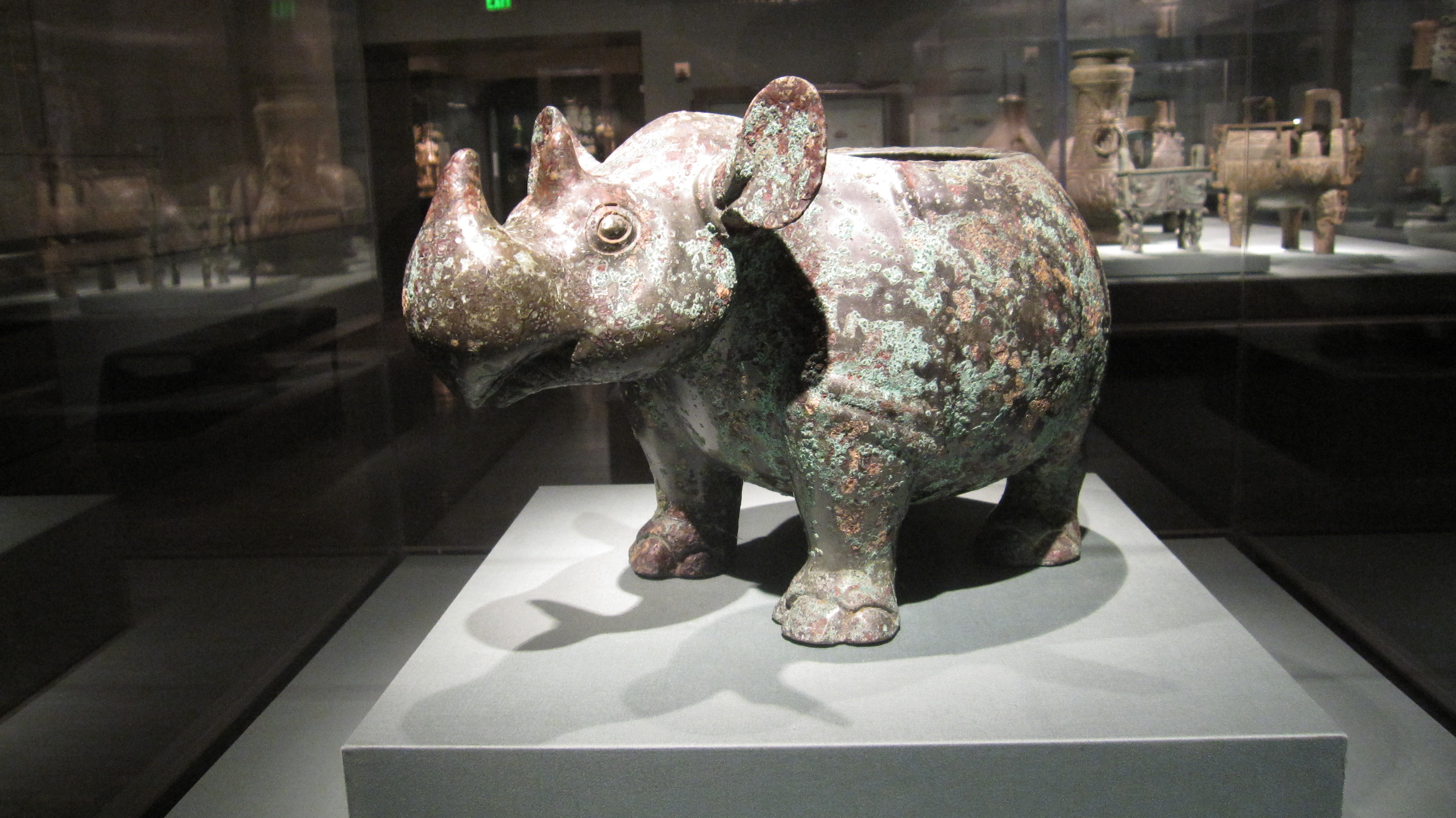 Wine ritual vessel (zun or gui) in shape of rhinoceros, probably late 1100s–1050 BCE, Shang Dynasty, bronze